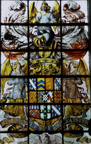 Frecheville Window,_Church of StJohn The Baptist, Staveley, Yorkshire. see [1] 11 quarters with inescutcheon of pretence of Harington (Sable, a fret azure), for Sarah Harington, 2nd wife of John Frescheville, 1st Baron Frescheville (1607-1682), daughter of Sir John Harington of Elmesthorpe, Leicestershire. Quarters: (Collectanea Topographica Et Genealogica, Volume 1 edited by Frederic Madden, Bulkeley Bandinel, London, 1834, pp.35-6[2]) 1. Frecheville. 2. Or, 2 chevrons az. Musard. [Fitz-Ralph.] 3. Gul. 3 annulets or. [Musard.] 4. Erm. on a bend. az. 3 cinquefoils or. [Beaufey.] 5 Gul. 6 cocks, 3. 2. 1. or. [Nuthill.] 6. Az. a lion ramp. within an orle of 10 cross-crossletts or. [Bruse.] 7 (omitted in Collectanea Topographica) Argent, a bend gules a bordure compony or and azure 8. Or, 3 lions pass. in pale gul. [Dive.] 9. Gul. 3 fleurs-de-lis arg. a chief nebulé az, and of the 2d. [Watervile.] 10. Arg. on a cross wavy vert 5 plates. [Peverel of Brunne.] 11. Frecheville, as the first.